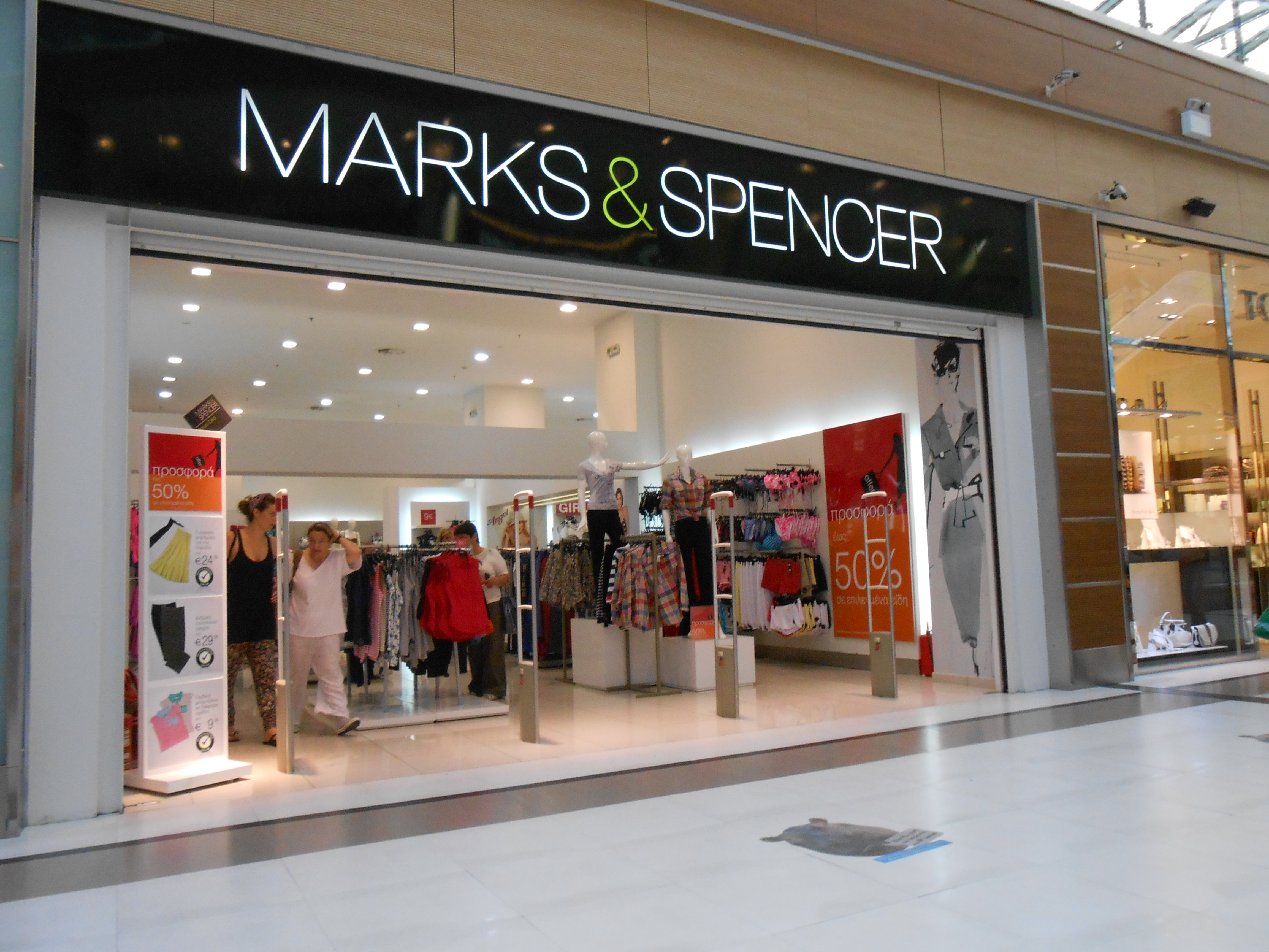 Marks & Spencer, The Mall Athens